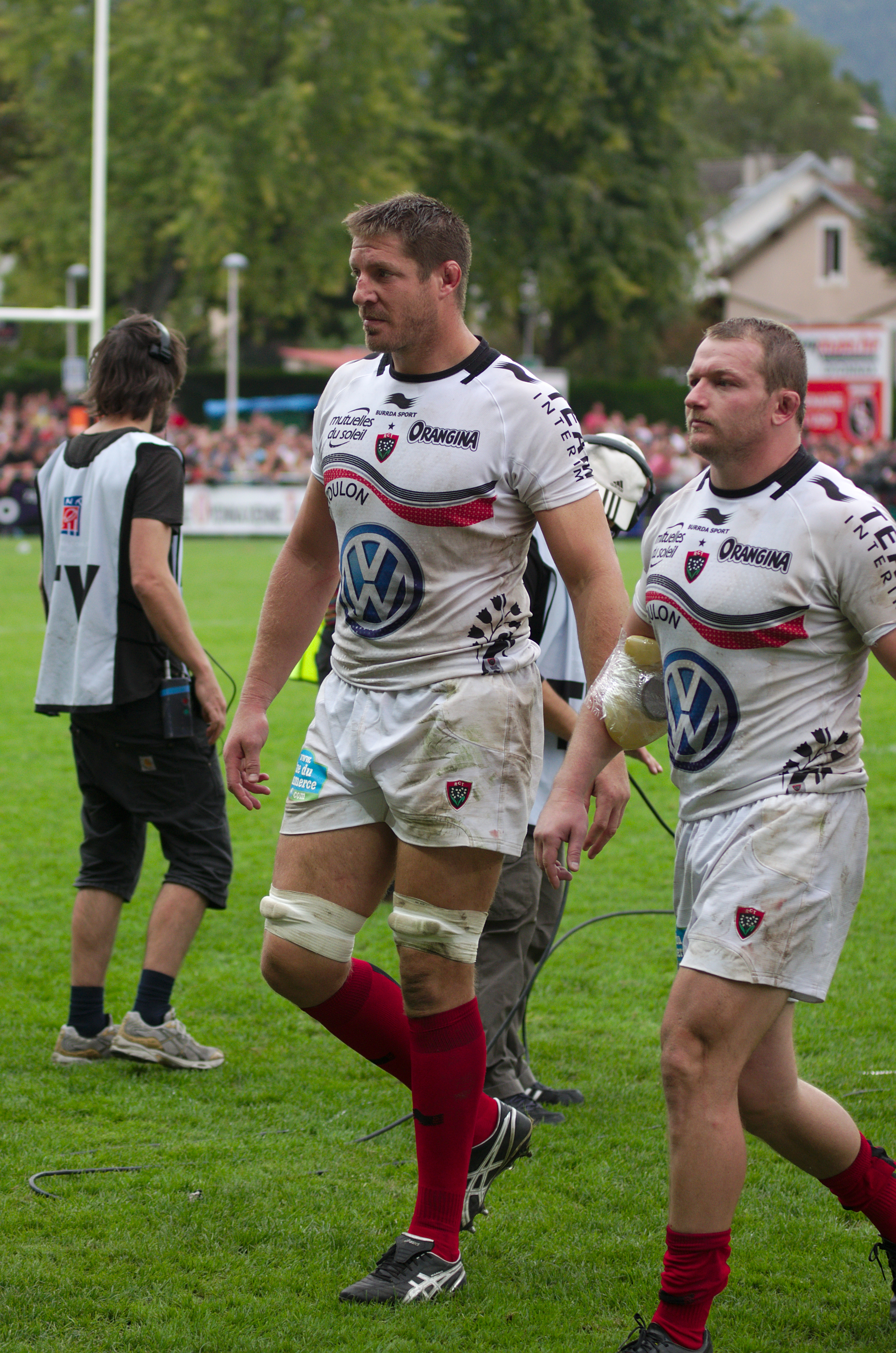 USO - RCT - 28-09-2013 - Stade Mathon - John Philip Botha et Benjamin Noirot